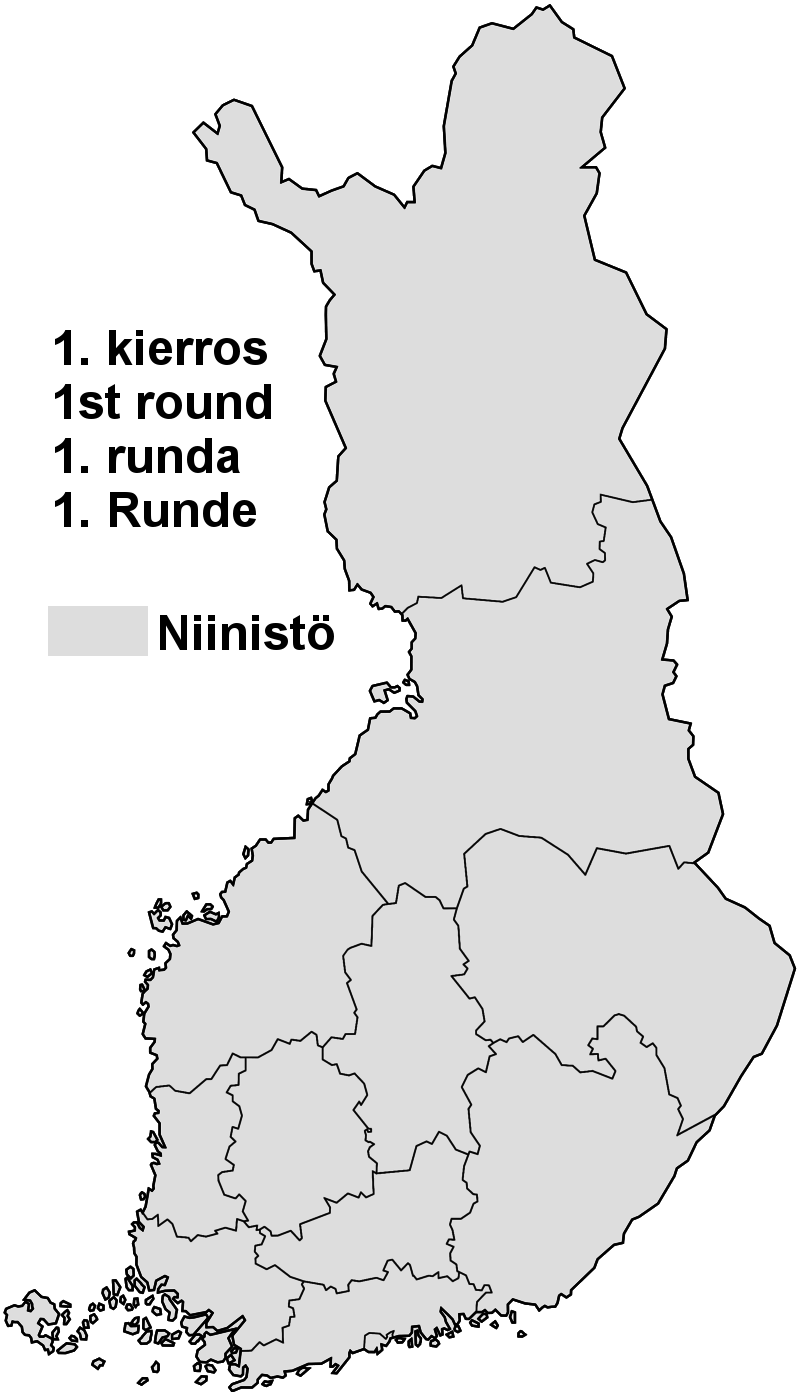 Presidential elections first round result, 2018